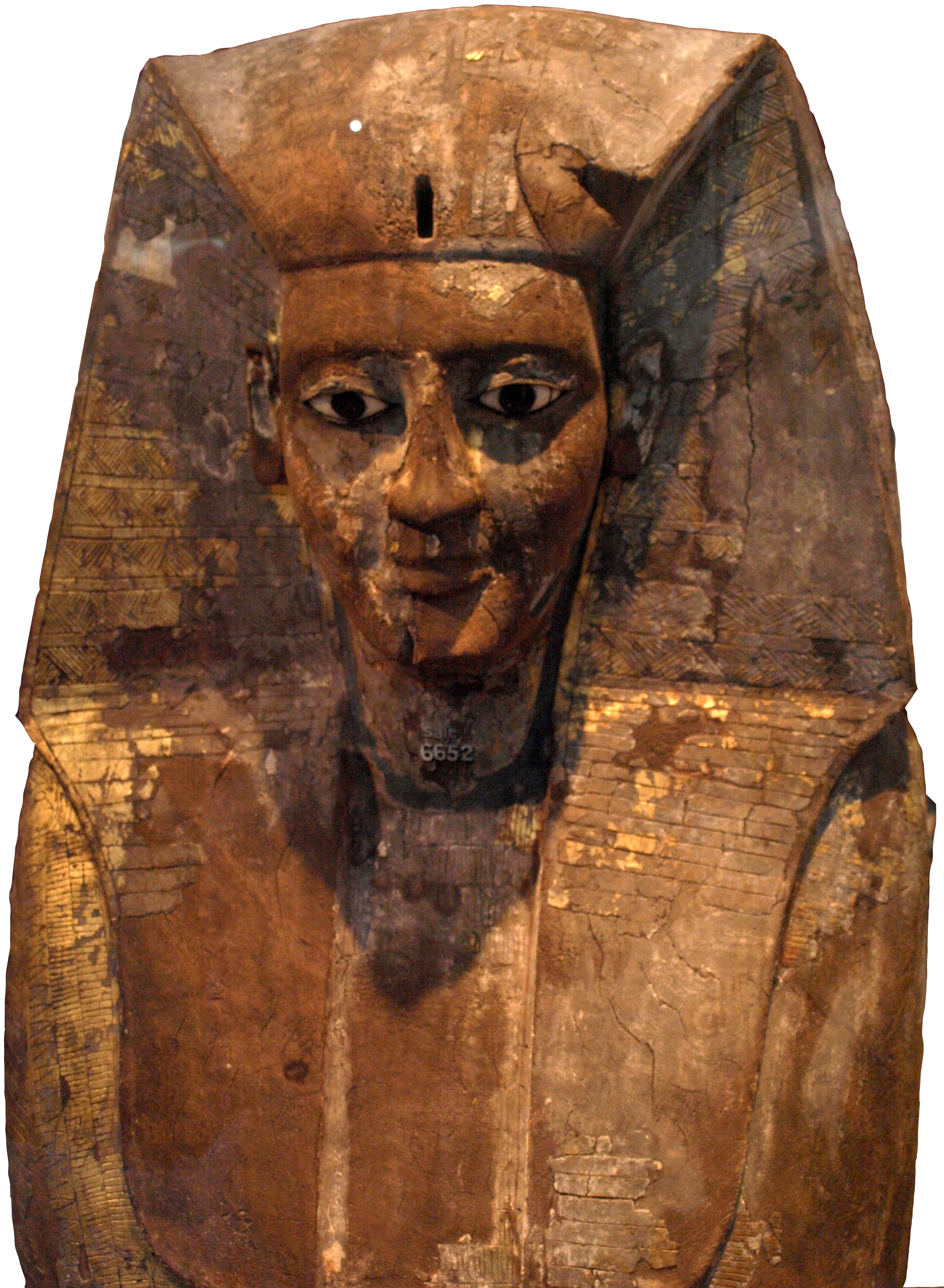 The Wooden coffin of pharaoh Nebkheperre Intef of Egypt's 17th dynasty, circa 1600 BC. Originally from Dra Abu el-Naga. Once a part of the Henry Salt collection, its catalogue number is EA 6652.